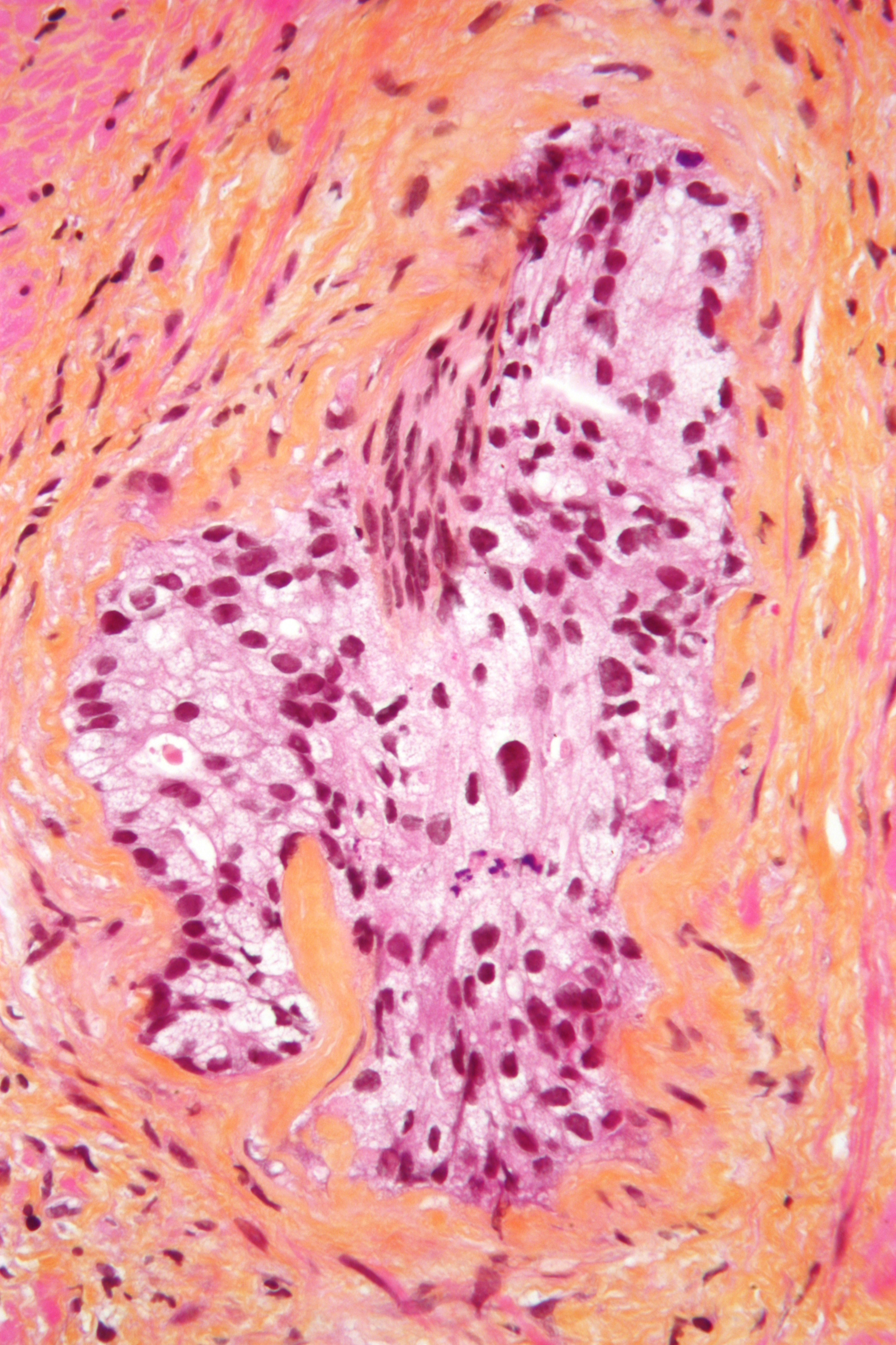 High magnification micrograph showing perineural invasion by prostate adenocarcinoma. HPS stain. See also Image:Prostate adenocarcinoma intermed mag hps.jpg - same case, different field.